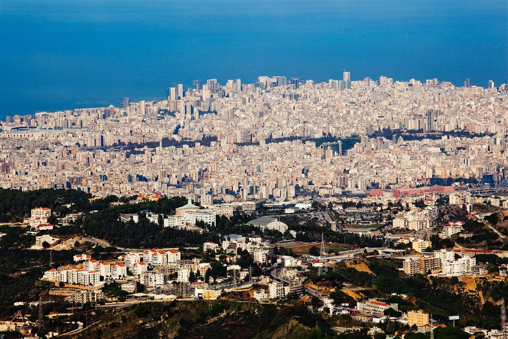 An overview of Beirut, Lebanon, which bounced back partly because of its location on the water.